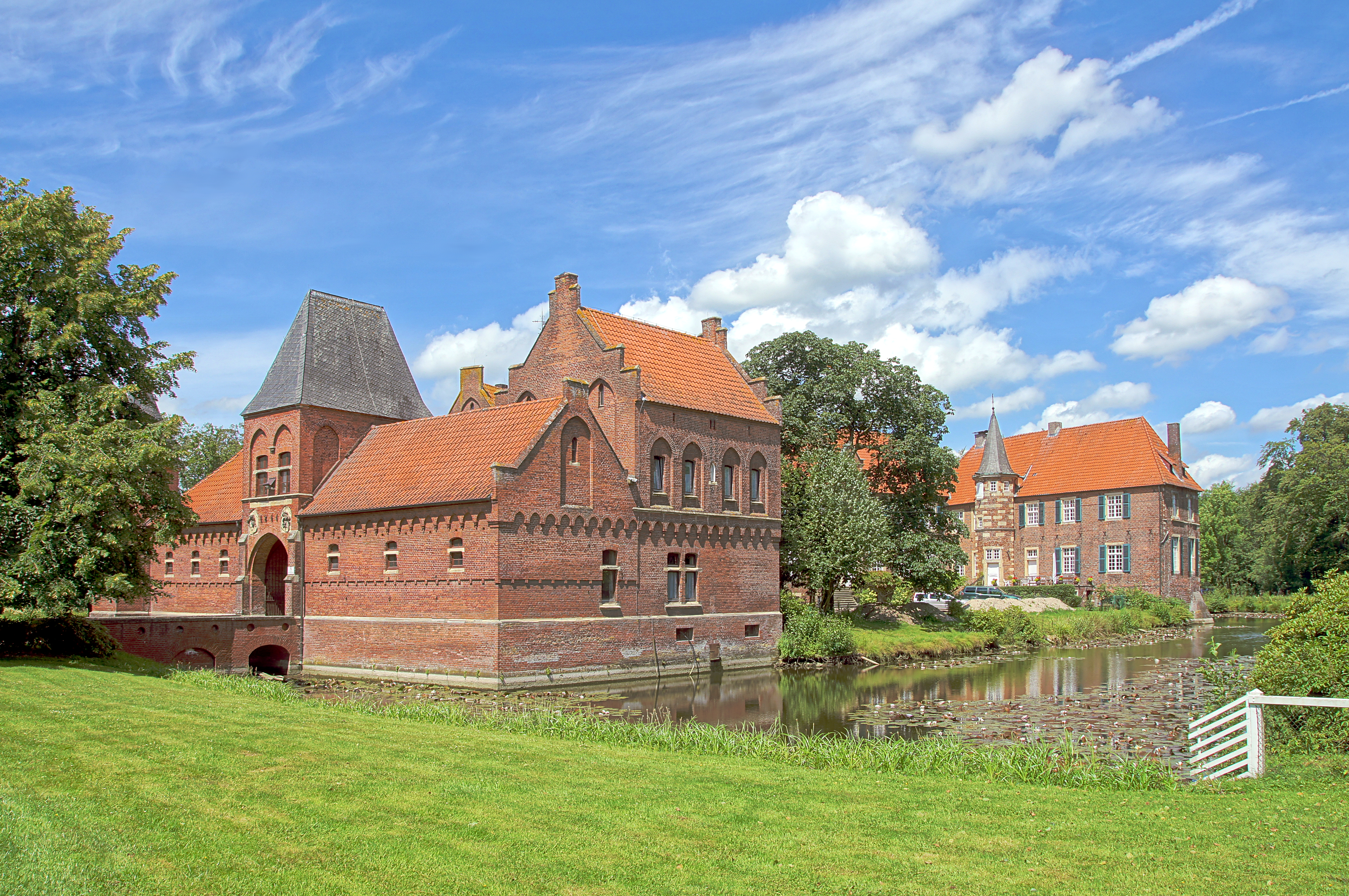 Haus Egelborg is a water castle in Legden, district of Borken, North Rhine-Westphalia, Germany. This is a photograph of an architectural monument.